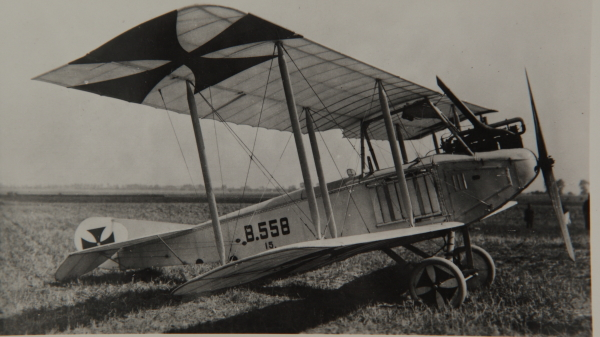 Aviatik B.II captured by the French in September 1915.